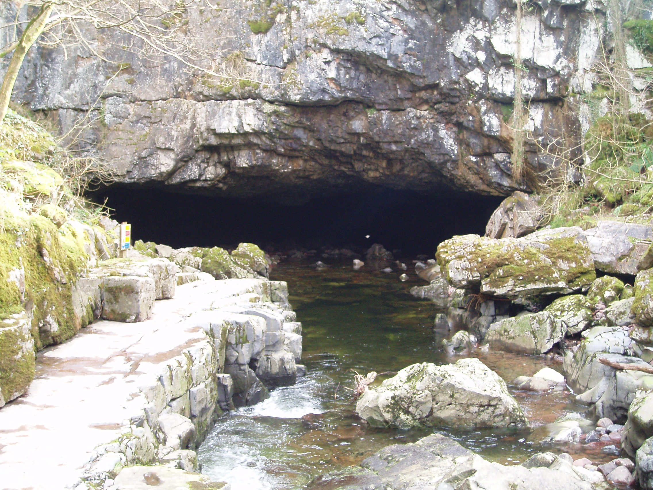 Entrance to Porth yr ogof cave in Brecon Beacons